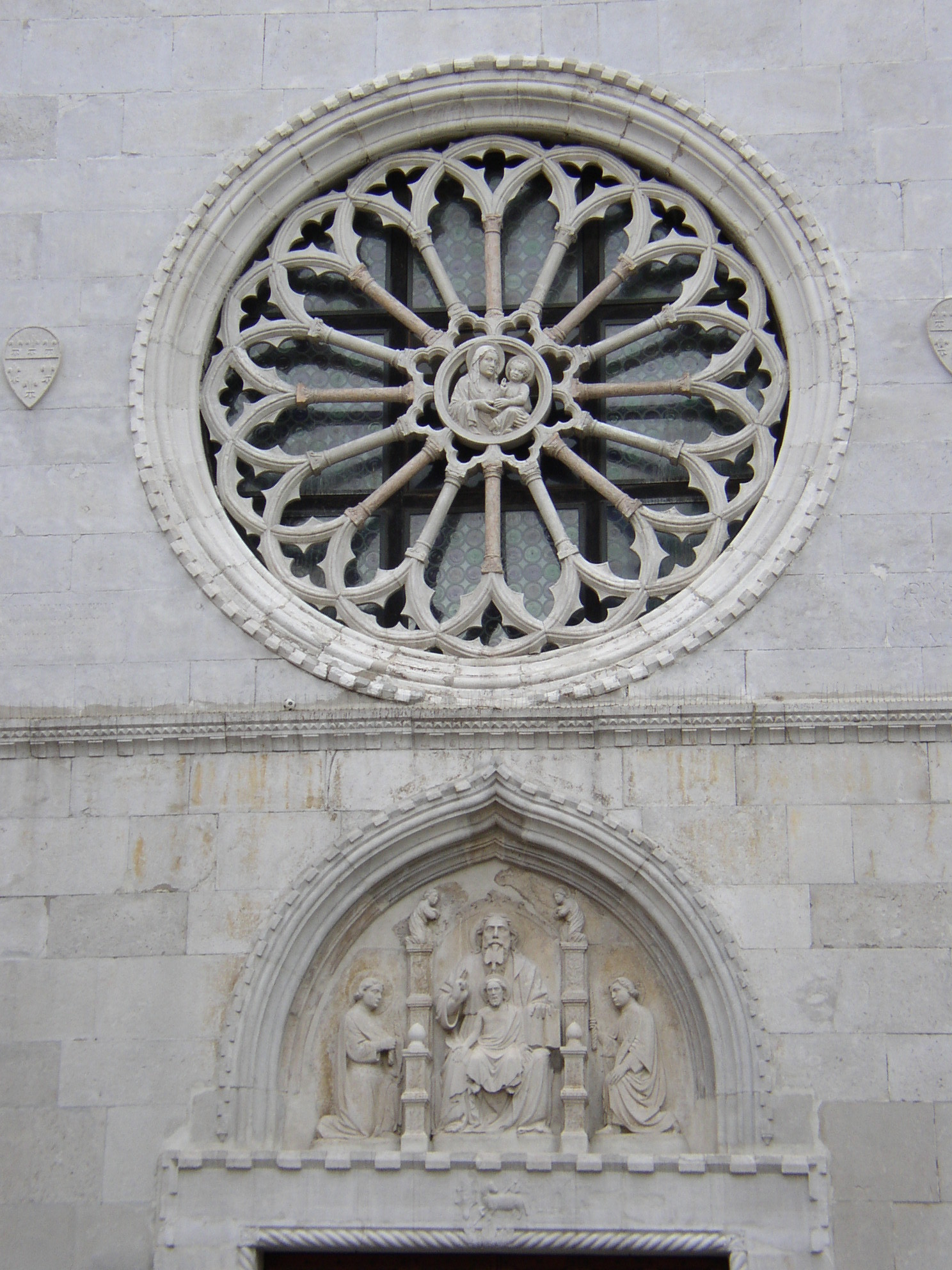 Muggia cathedral - detail.